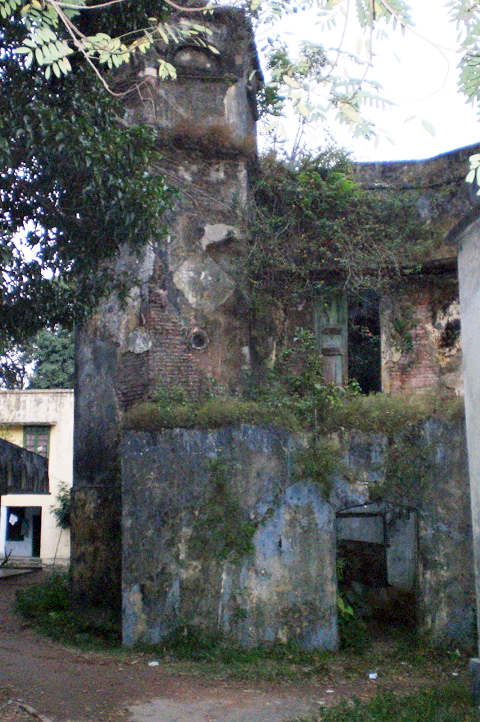 The building was built by the Portuguese invaders before the British rule. Currently it is a property of Hazi Mohammad Mohsin College, Chittagong.